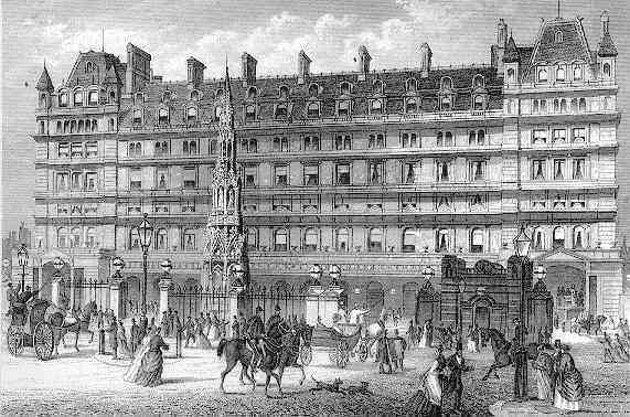 The front entrance to Charing Cross railway station in a 19th century print. The Charing Cross itself can be seen in front of the Charing Cross Hotel, which is now the Thistle Charing Cross.